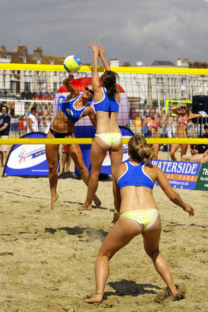 Beach Volleyball Classic 2007 Weymouth Dorset ENGLAND